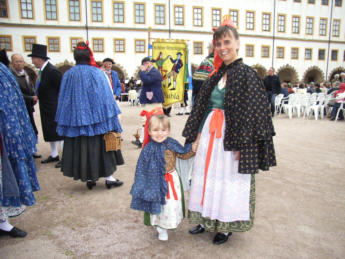 The traditional costume society "Alt Ruhla" e.V. in Gotha, Friedenstein castle.